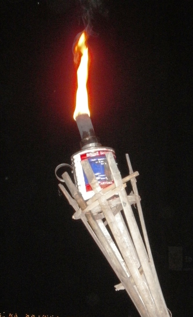 Photo of a traditional torch to be posted at gates